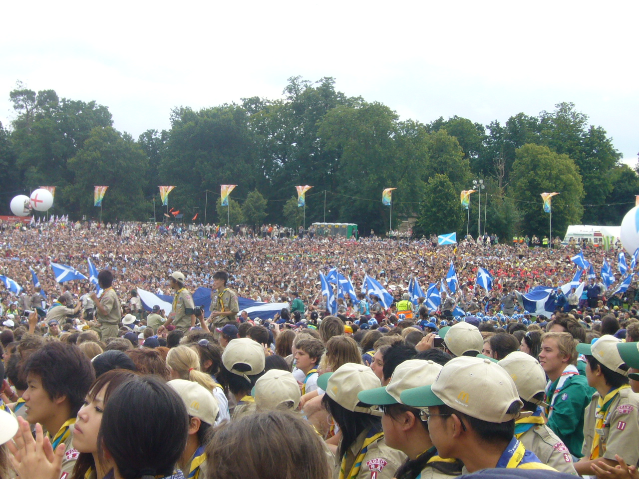 The opening ceremony of the 21st World Scout Jamboree at Hylands Park, Chelmsford, Essex, England, UK.